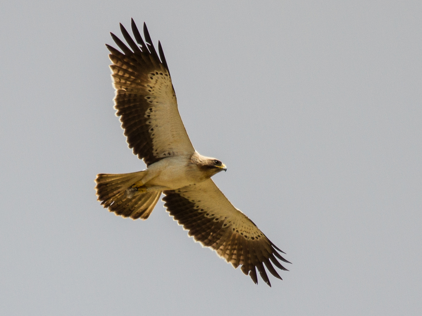 Booted eagle in flight